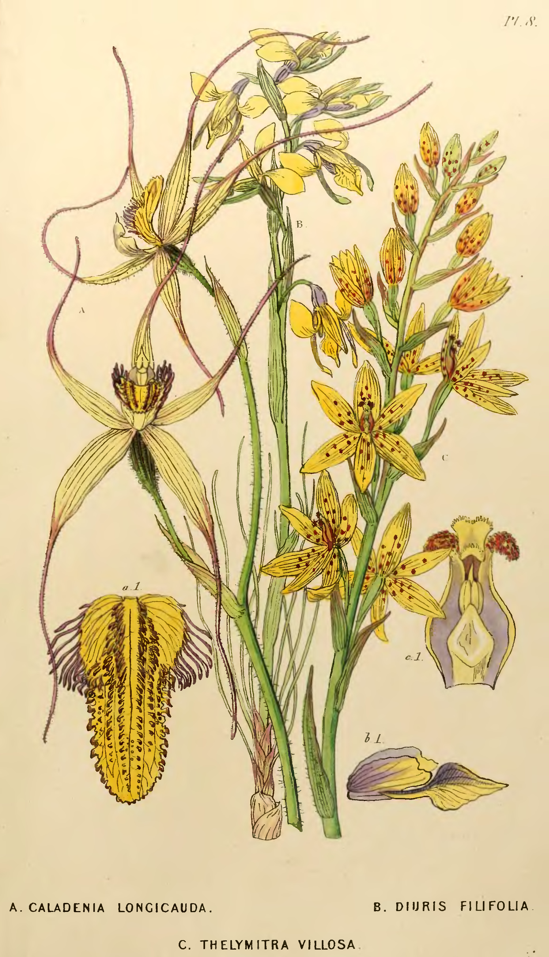 This is a plate from A sketch of the vegetation of the Swan River Colonyby John Lindley. The plants depicted are Caladenia longicauda (syn.: Calonemorchis longicauda), Diuris filifolia and Thelymitra villosa.